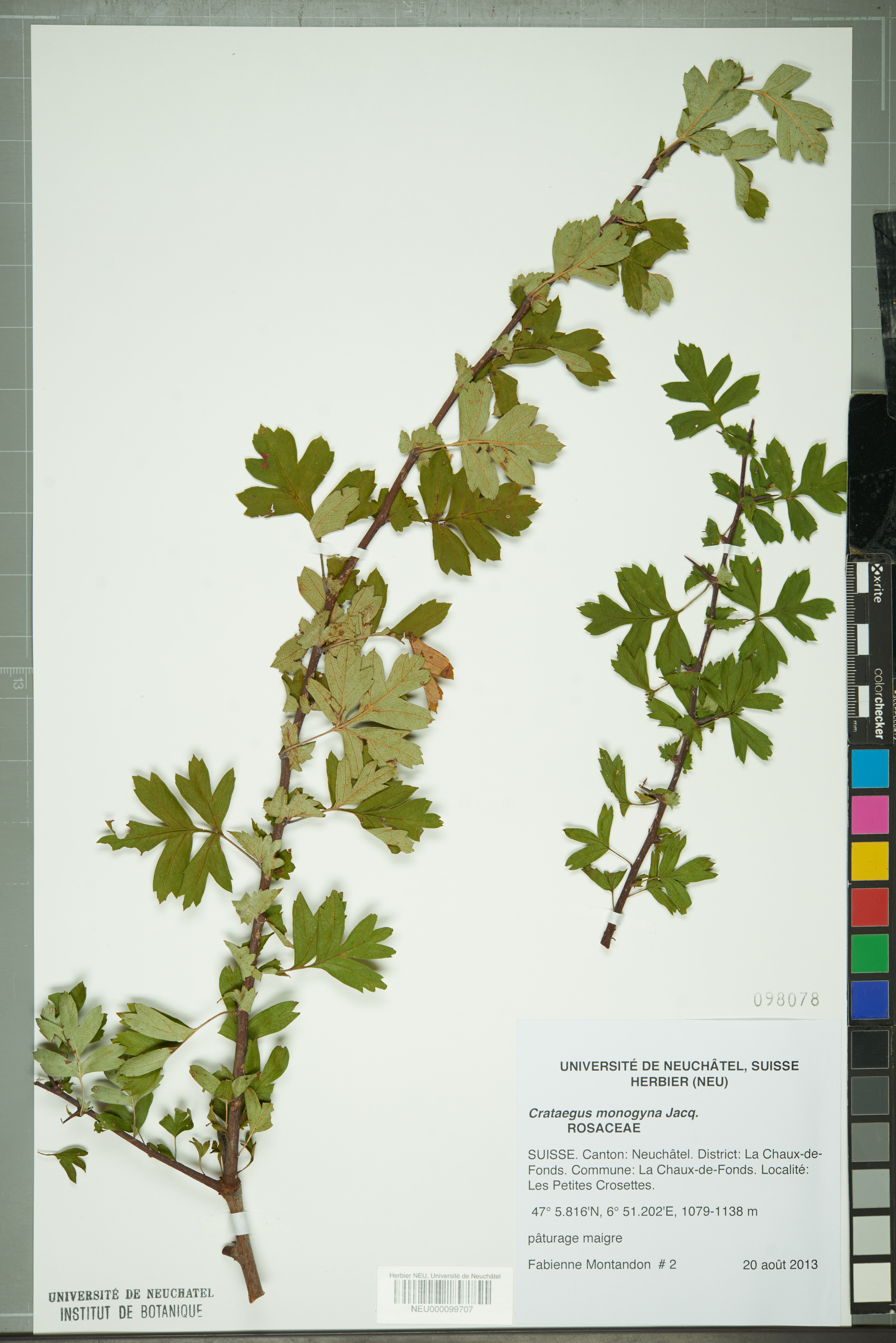 Dried pressed specimen of Crataegus monogyna